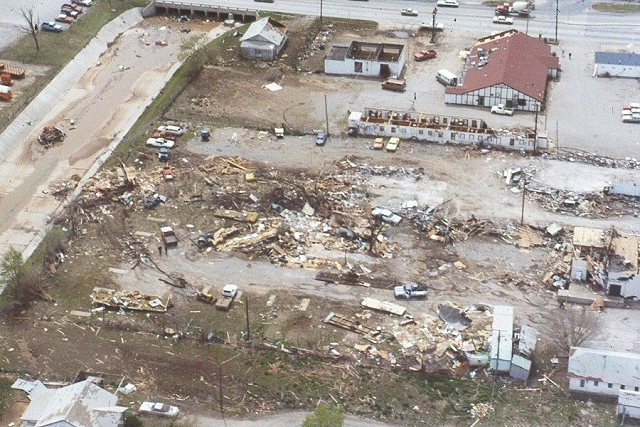 An areal view of southeast Lawton Oklahoma that was stuck by an F3 tornado on April 10, 1979